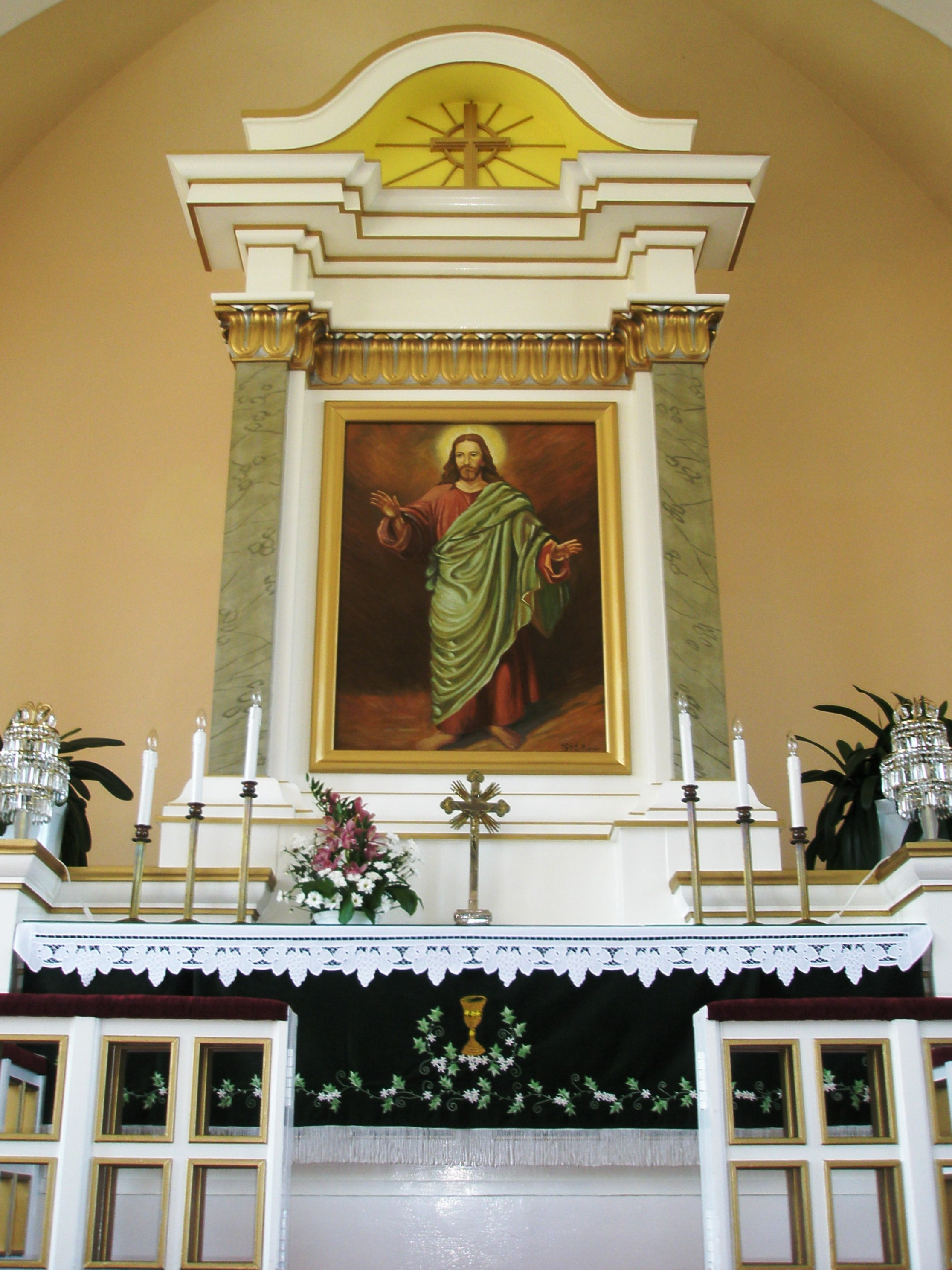 Altar of the Lutheran church in Albrechtice, Karviná District, Czech republic